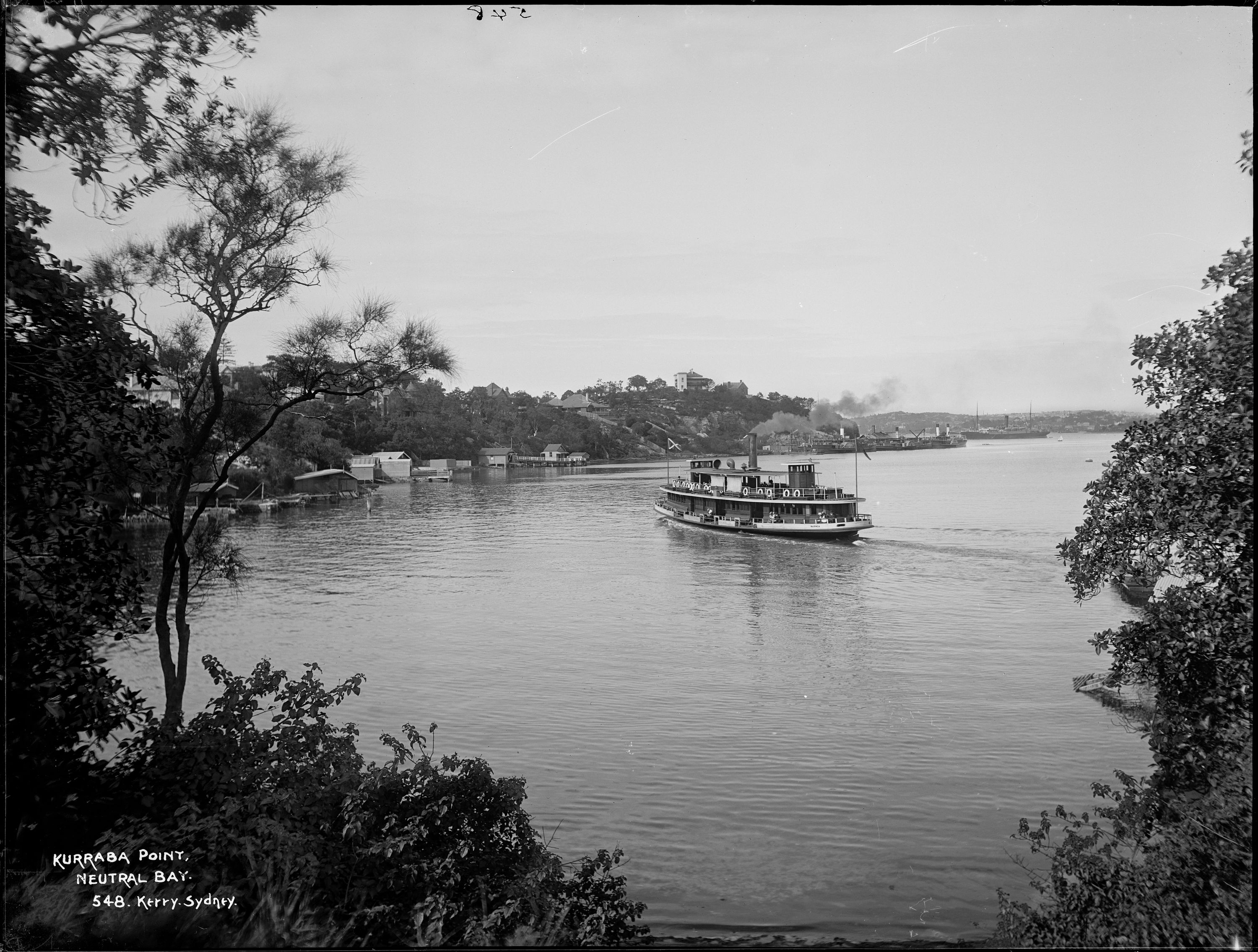 Ferry Waringa in Neutral Bay circa 1905 - 1907 Museum of Applied Arts & Sciences. Photograph of Kurraba Point, Neutral Bay, NSW, 1905-1907. Museum of Applied Arts & Sciences, Australia.